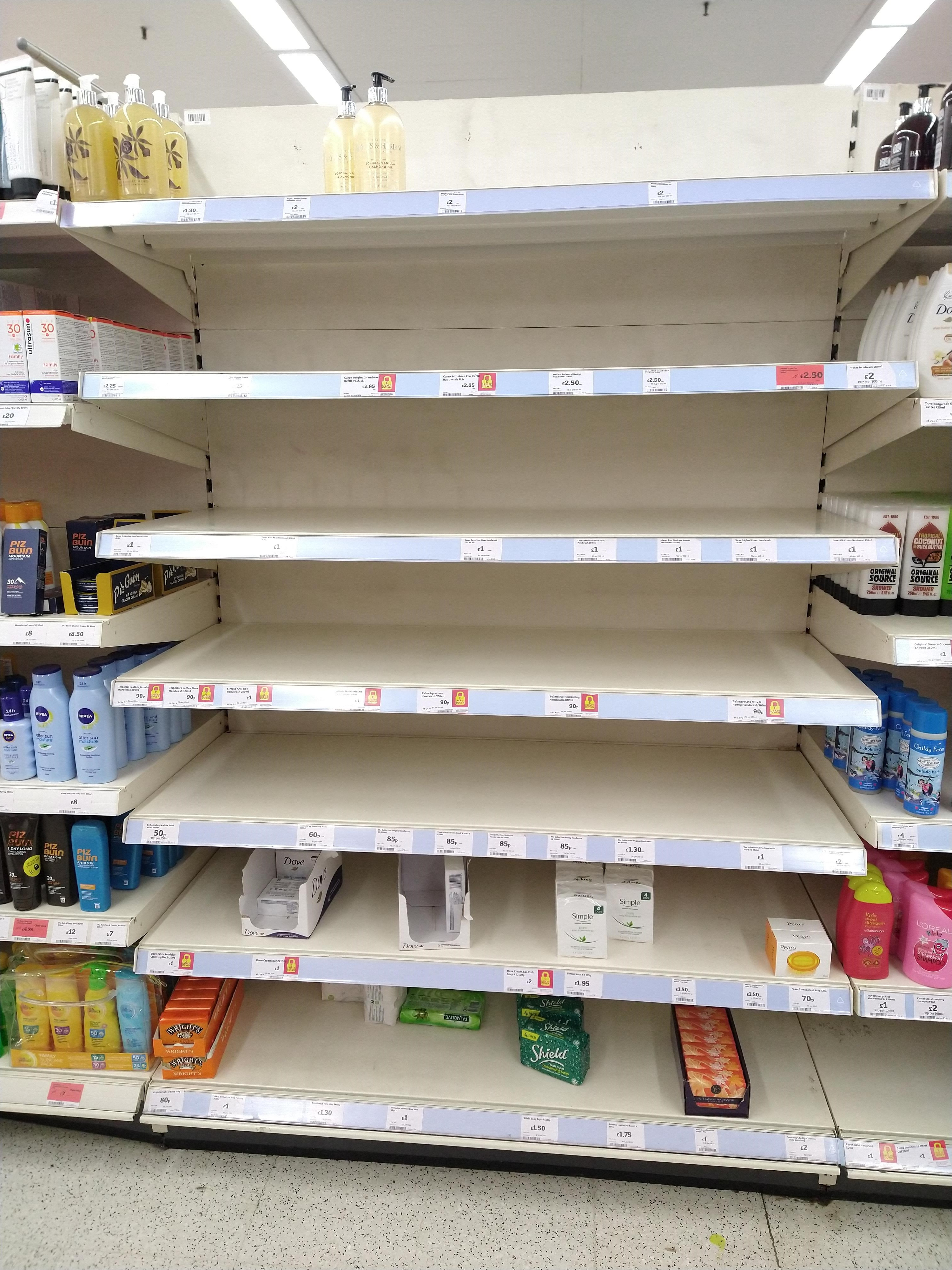 Almost sold out handwash and soap - Sainsbury's north London 3 March 2020